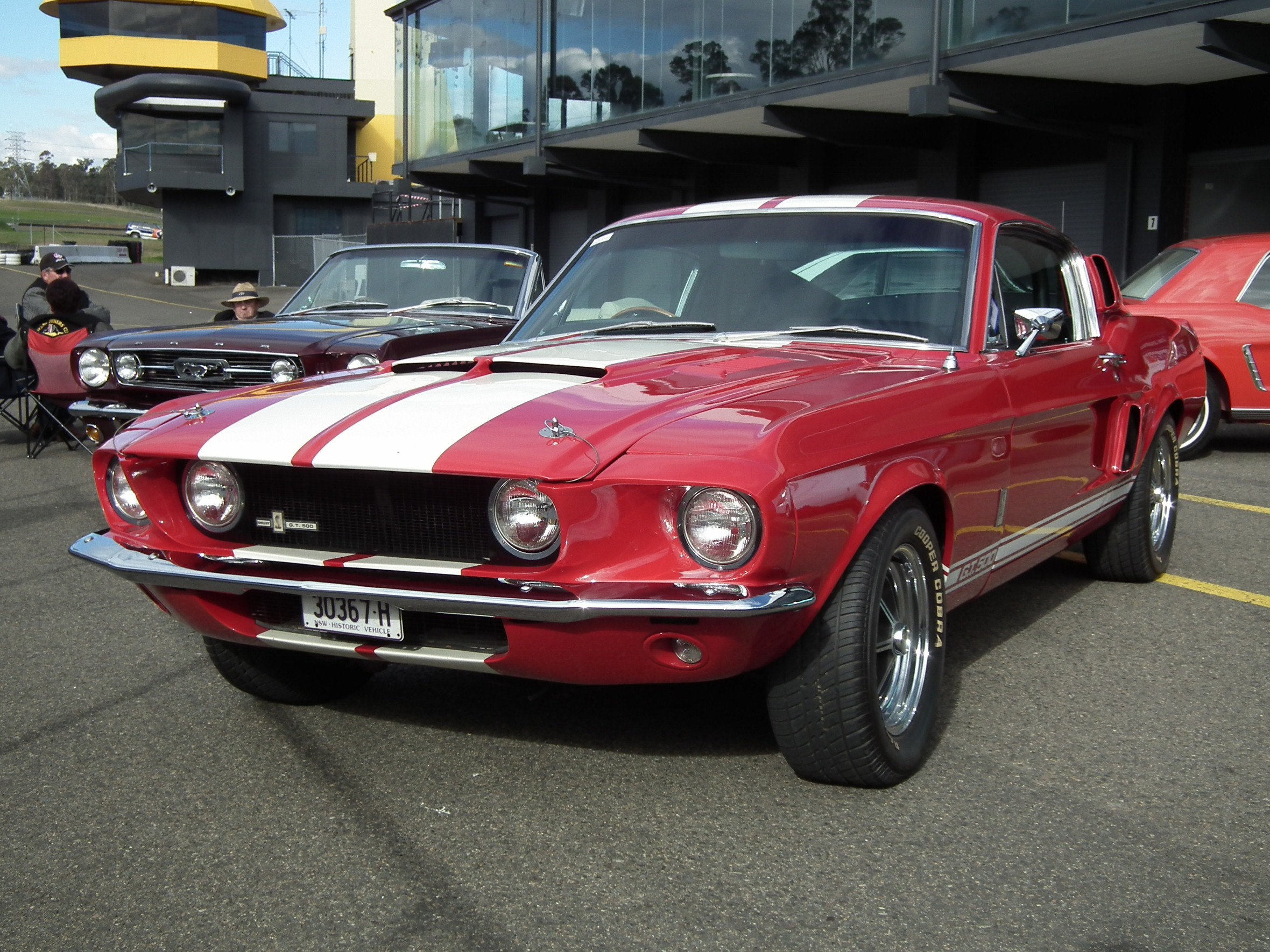 1967 Ford Mustang Shelby GT500 coupe. Taken at the 2012 New South Wales All Ford Day, held at Sydney Motorsport Park (formerly Eastern Creek Raceway).